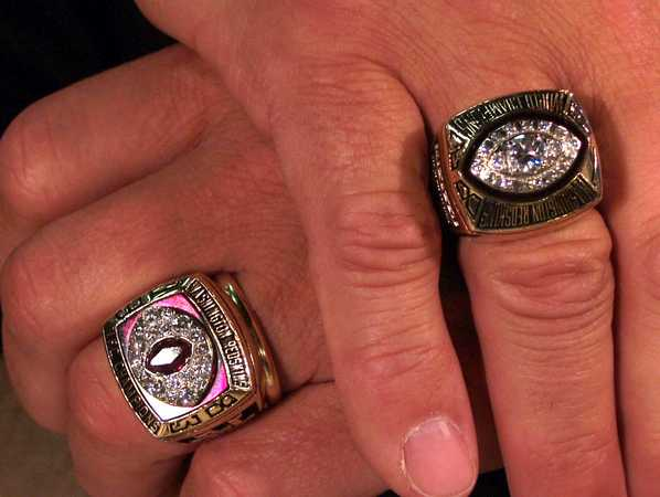 Joe Theismann's Superbowl Ring & Conference ring